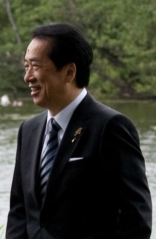 David Cameron, Prime Minister, Herman Van Rompuy, President of the European Council, Stephen Harper, Prime Minister, Dmitry Medvedev, President, Naoto Kan, Prime Minister, Silvio Berlusconi, Prime Minister, Barack Obama, President, José Manuel Barroso, President of the European Commission, Angela Merkel, Chancellor, and Nicolas Sarkozy, President, walked at the 36th G8 summit in Muskoka District Municipality, Ontario Province on June 25, 2010.